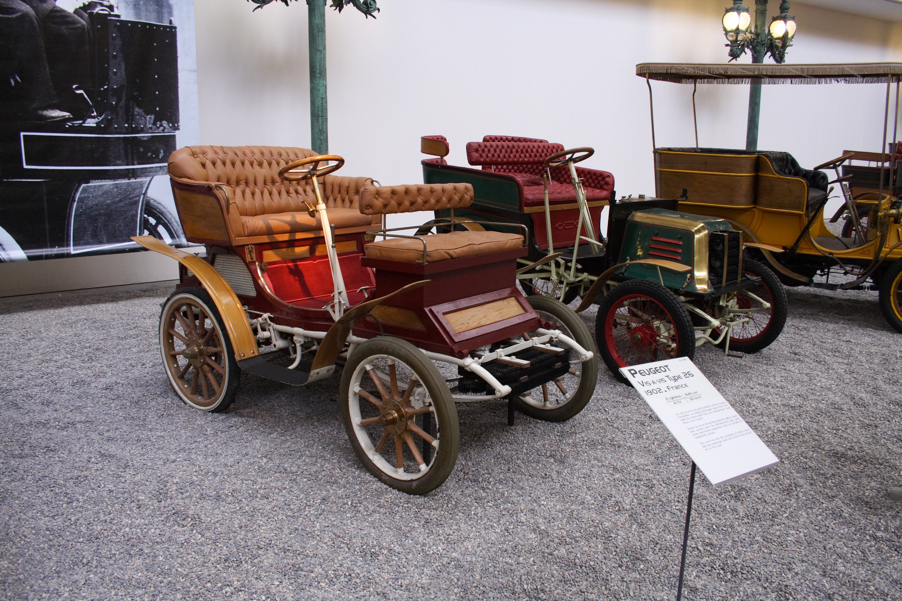 Peugeot VIS-A-VIS Type 26 1902 at the Musée National de l'Automobil(Mulhouse, France)